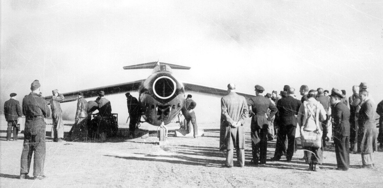 Prototype I.Ae. 33 Pulqui II being inspected during testing.